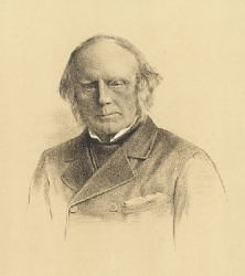 George Keppel, 6th Earl of Albemarle (1799-1891)